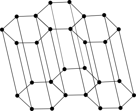 Hexagonal crystal structure (Carbon)